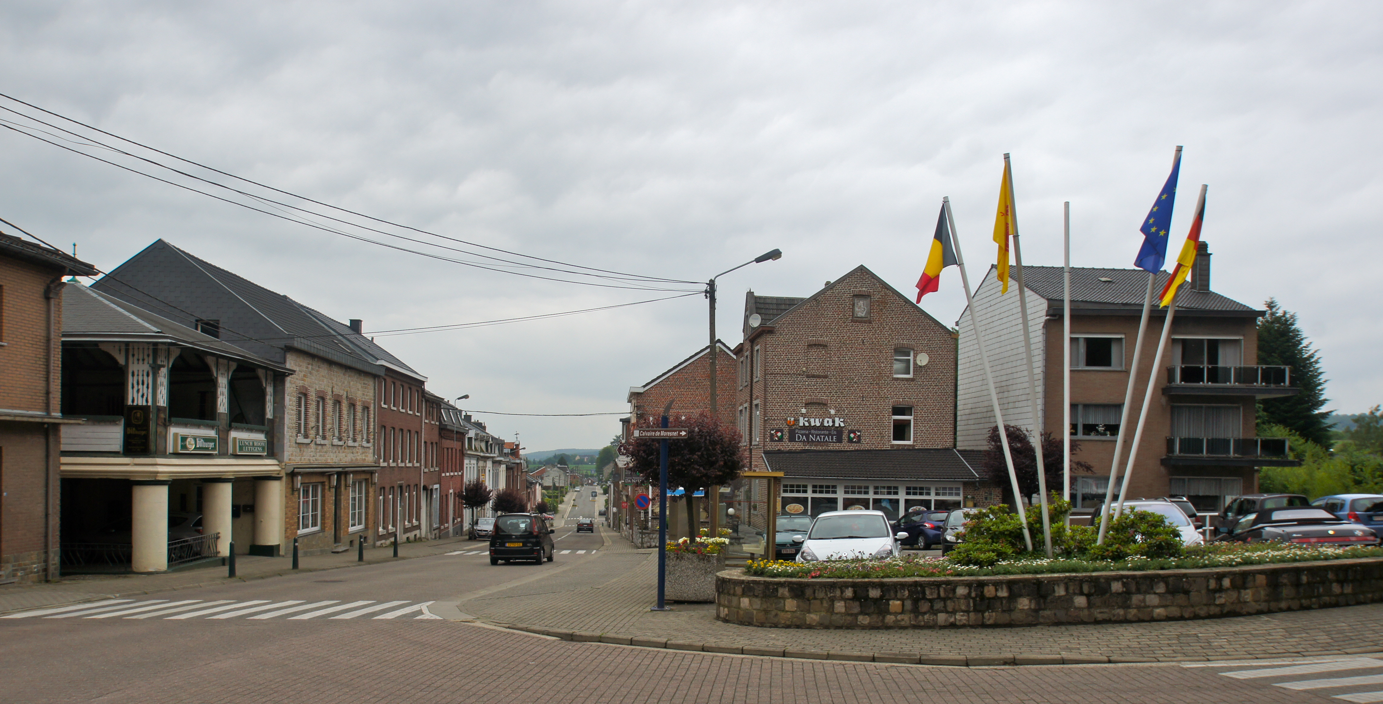 Moresnet (Moresnet-Chapelle), Belgium: Rue de la Chapelle